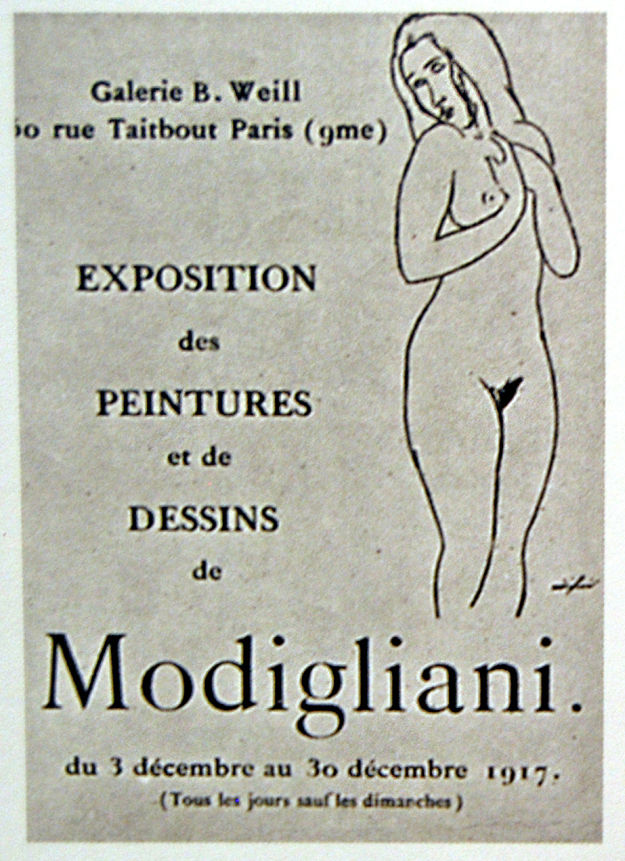 printed material for the first and only one man exhibition made by Modigliani in his lifetime at the gallerie Berthe Weill in 1917 that ended with the closure made by the police for public scandal because of the nudes.